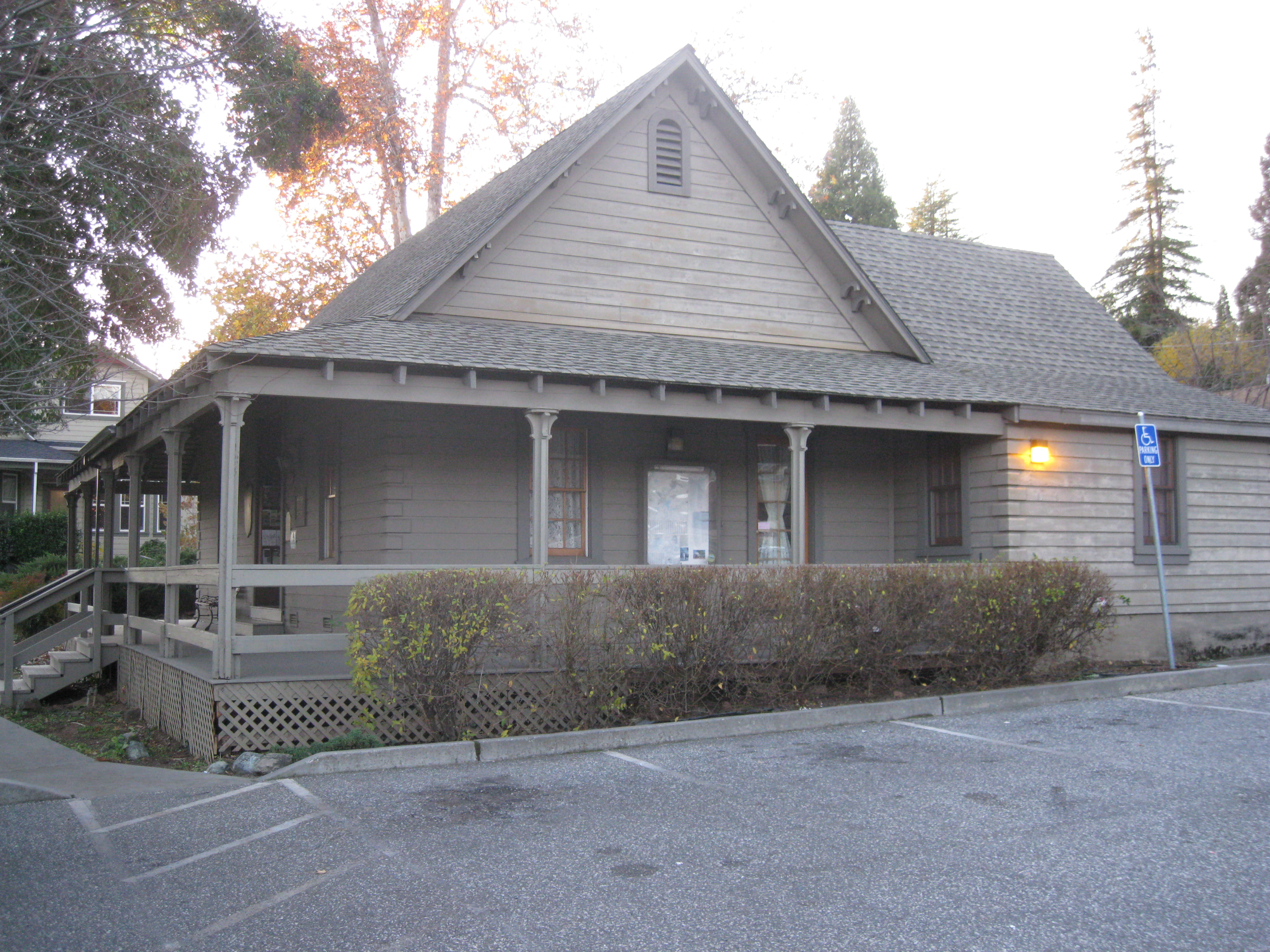 Home of Lola Montez — residence of the 19th century actress Lola Montez (1821-1861), in downtown Grass Valley, California. Built in 1851, and a California Historical Landmark in Nevada County.